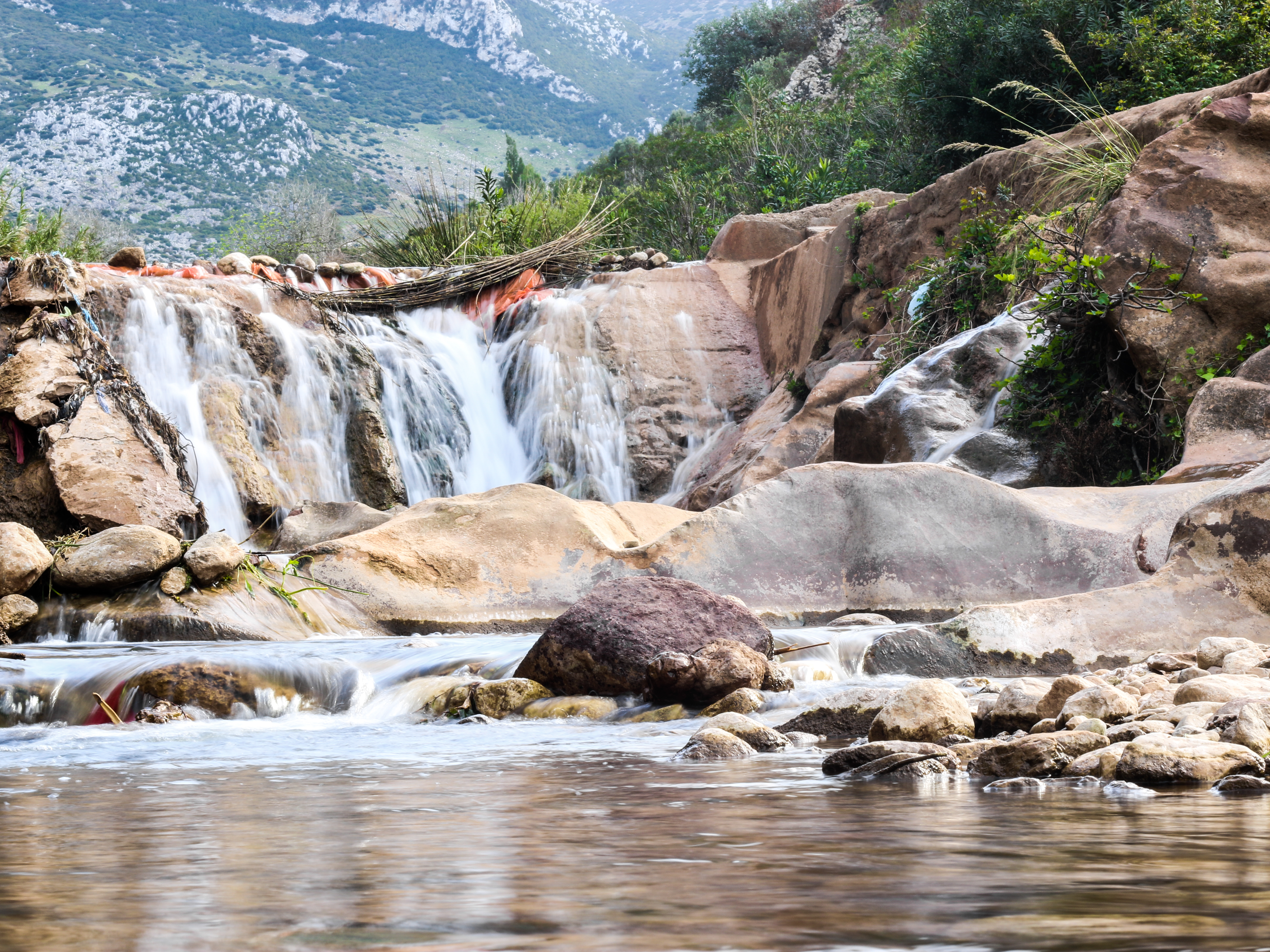 Aïn Zarka, Tetouan Province, Morocco